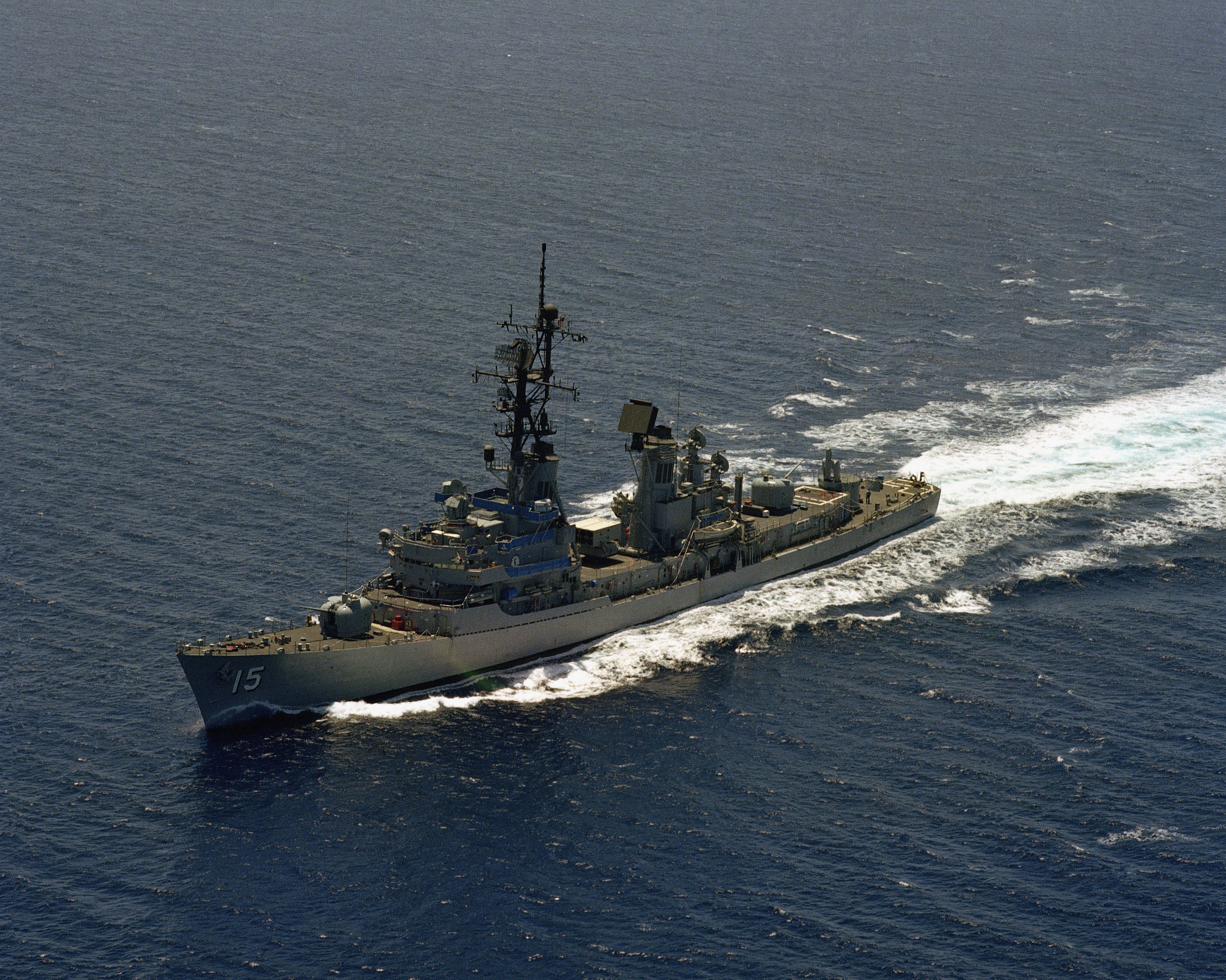 The U.S. Navy Charles F. Adams-class guided missile destroyer USS Berkeley (DDG-15) underway in the Pacific Ocean on 2 August 1984.